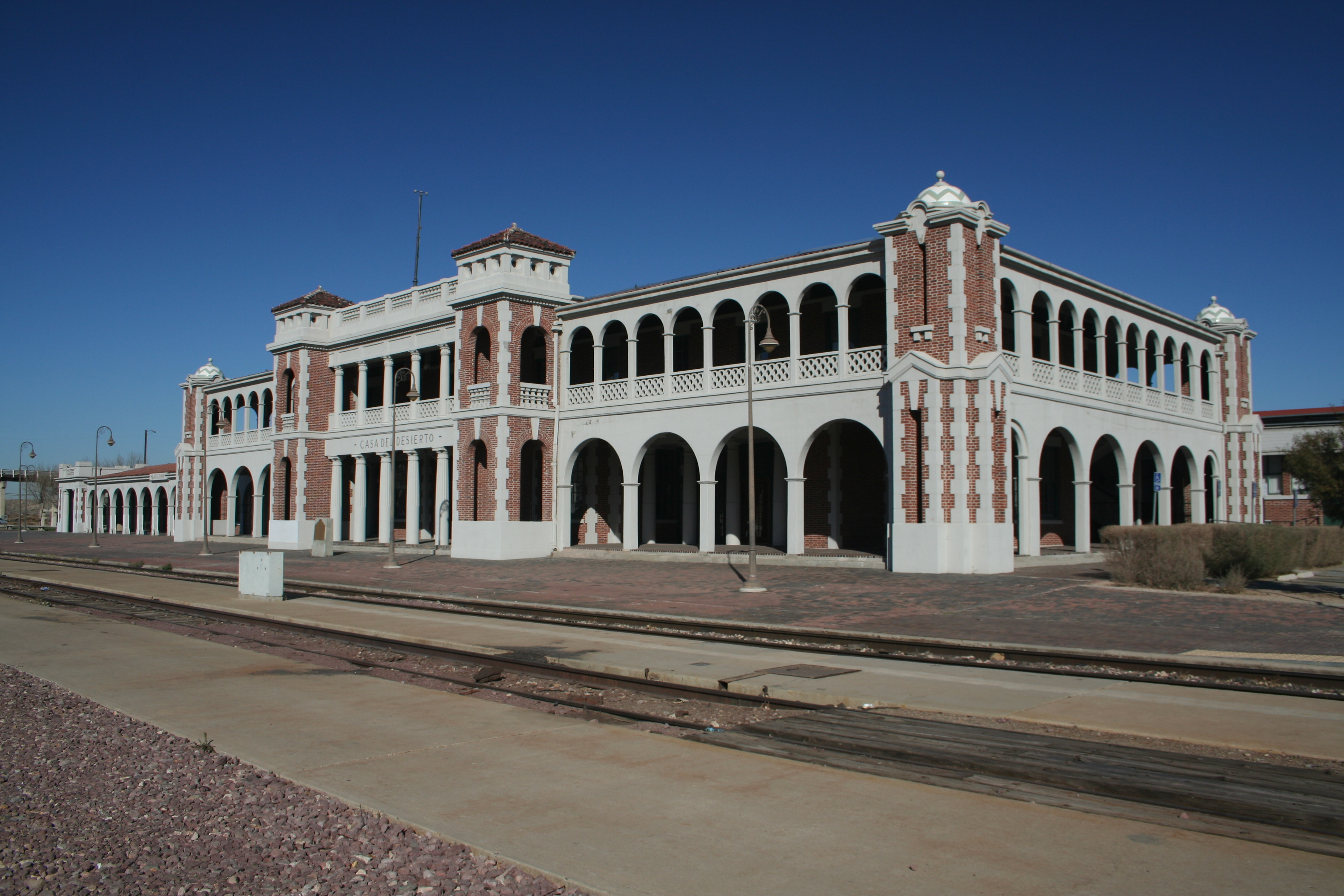 A "Harvey House," Casa Del Desierto, in Barstow, California. Photographed by and copyright of (c) David Corby (User:Miskatonic, uploader) 2006 Permission is granted to copy, distribute and/or modify this document under the terms of the GNU Free Documentation License, Version 1.2 or any later version published by the Free Software Foundation; with no Invariant Sections, no Front-Cover Texts, and no Back-Cover Texts. A copy of the license is included in the section entitled "GNU Free Documentation License".